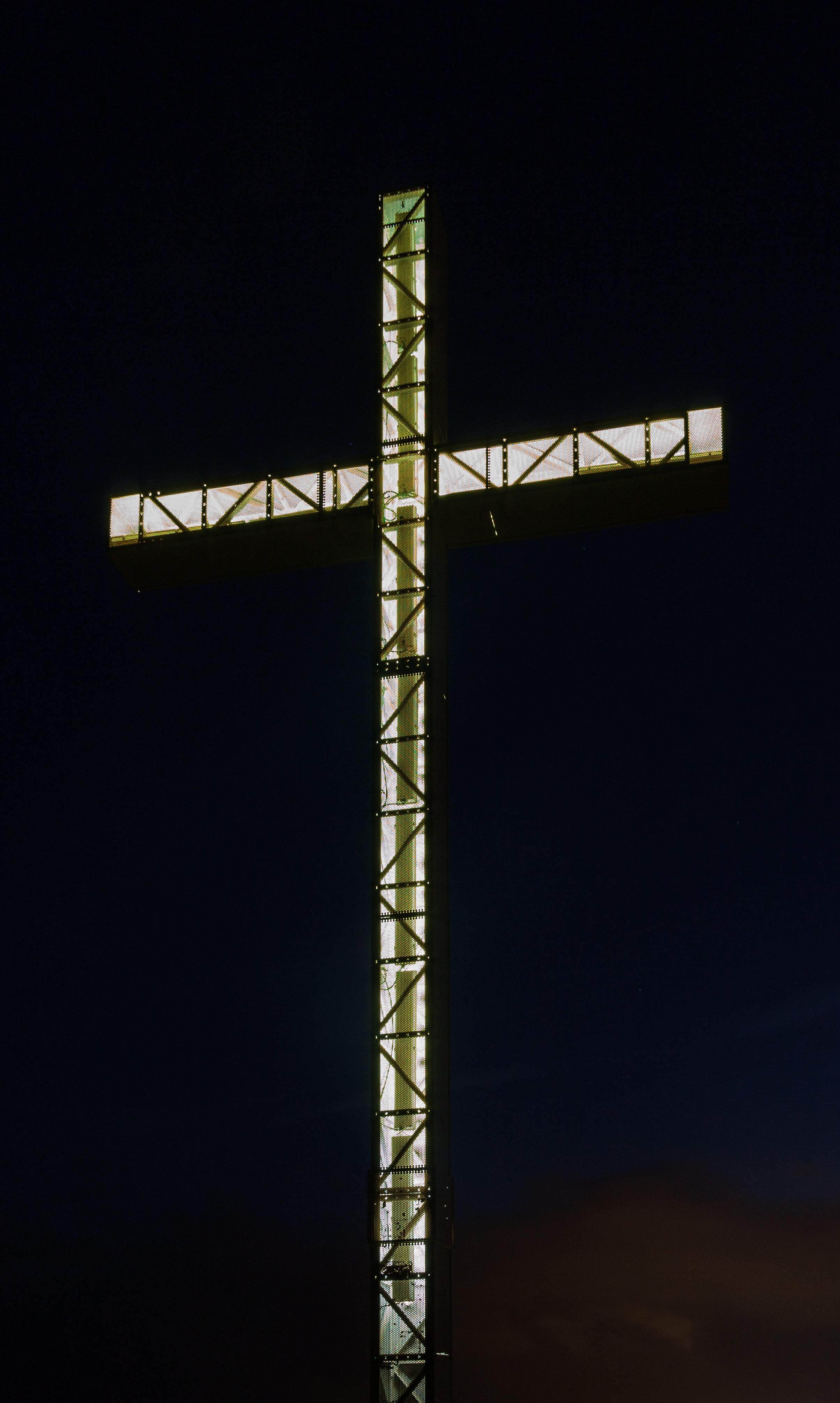 Cross of Benidorm, Spain